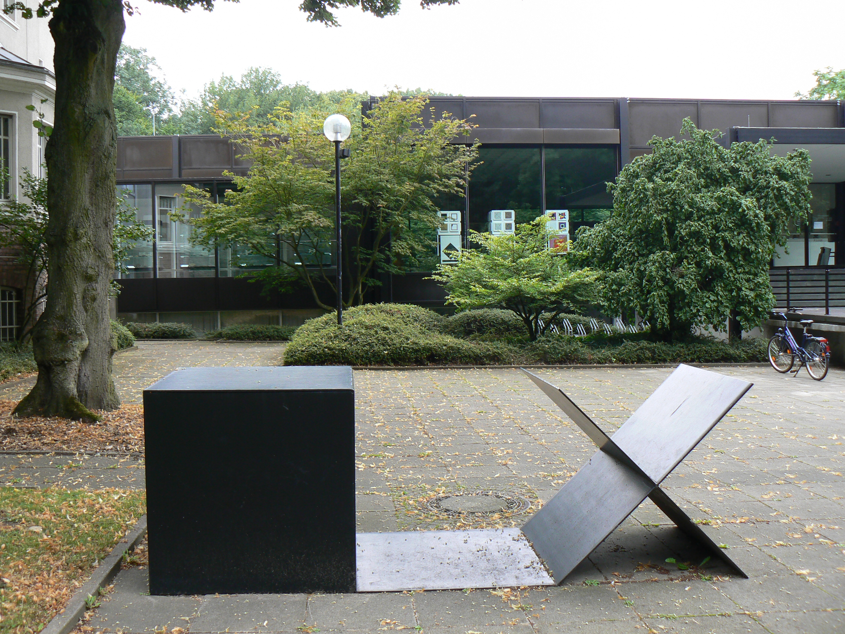 Sculpture in sculpturepark Quadrat Bottrop (Moderne Galerie) in Bottrop/Germany. Sculptor: Friedrich Gräsel Titel:Raumplastik III (1978)